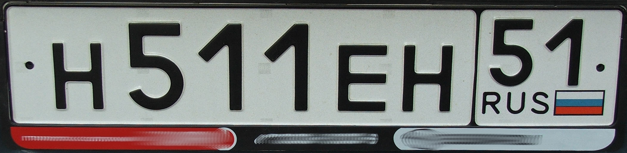 Vehicle licence plate from Russia as seen in 2007. "51" stands for Murmansk oblast.